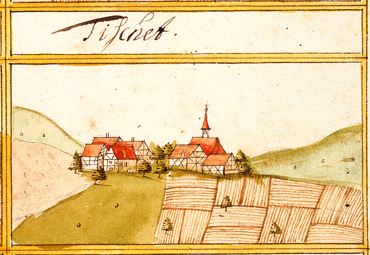 View of Tischardt, Frickenhausen, from the forest register books created by Andreas Kieser